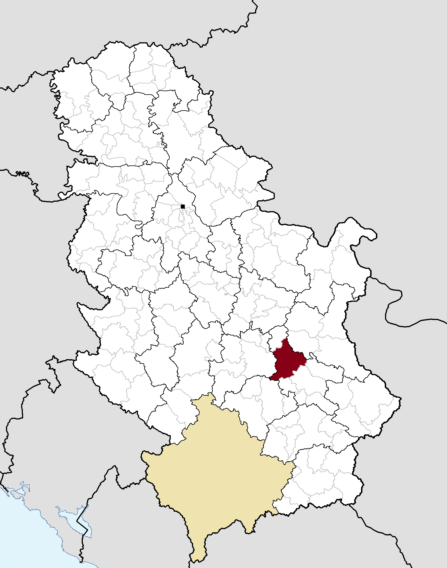 Municipal location in Serbia